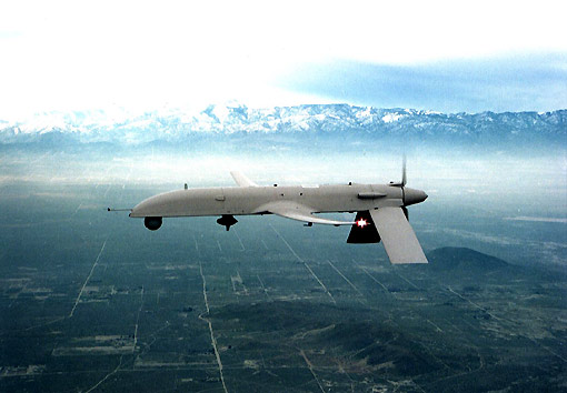 General Atomics I-GNAT ER UAV Iraq 2004.